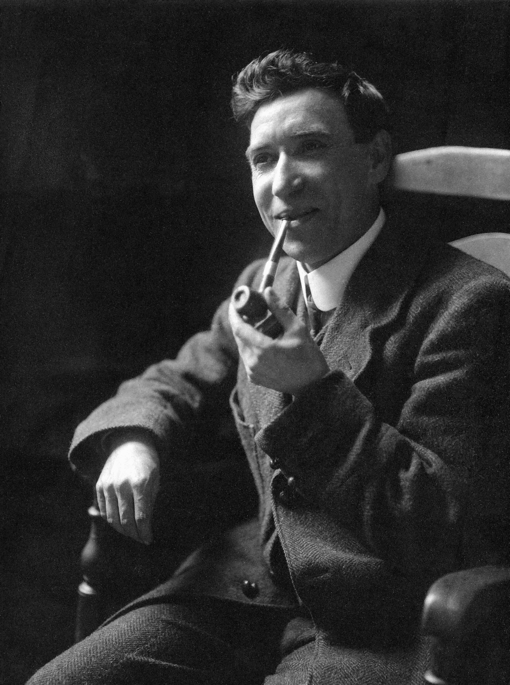 William Henry Davies, photograph, platinum print, half-length, smoking a pipe